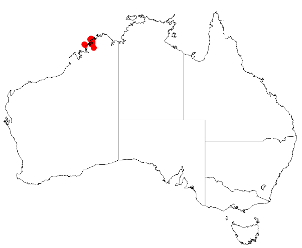 Acacia kenneallyi Occurrence data from Australasia Virtual Herbarium downloaded from on 8 December 2018